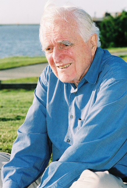 Douglas Engelbart